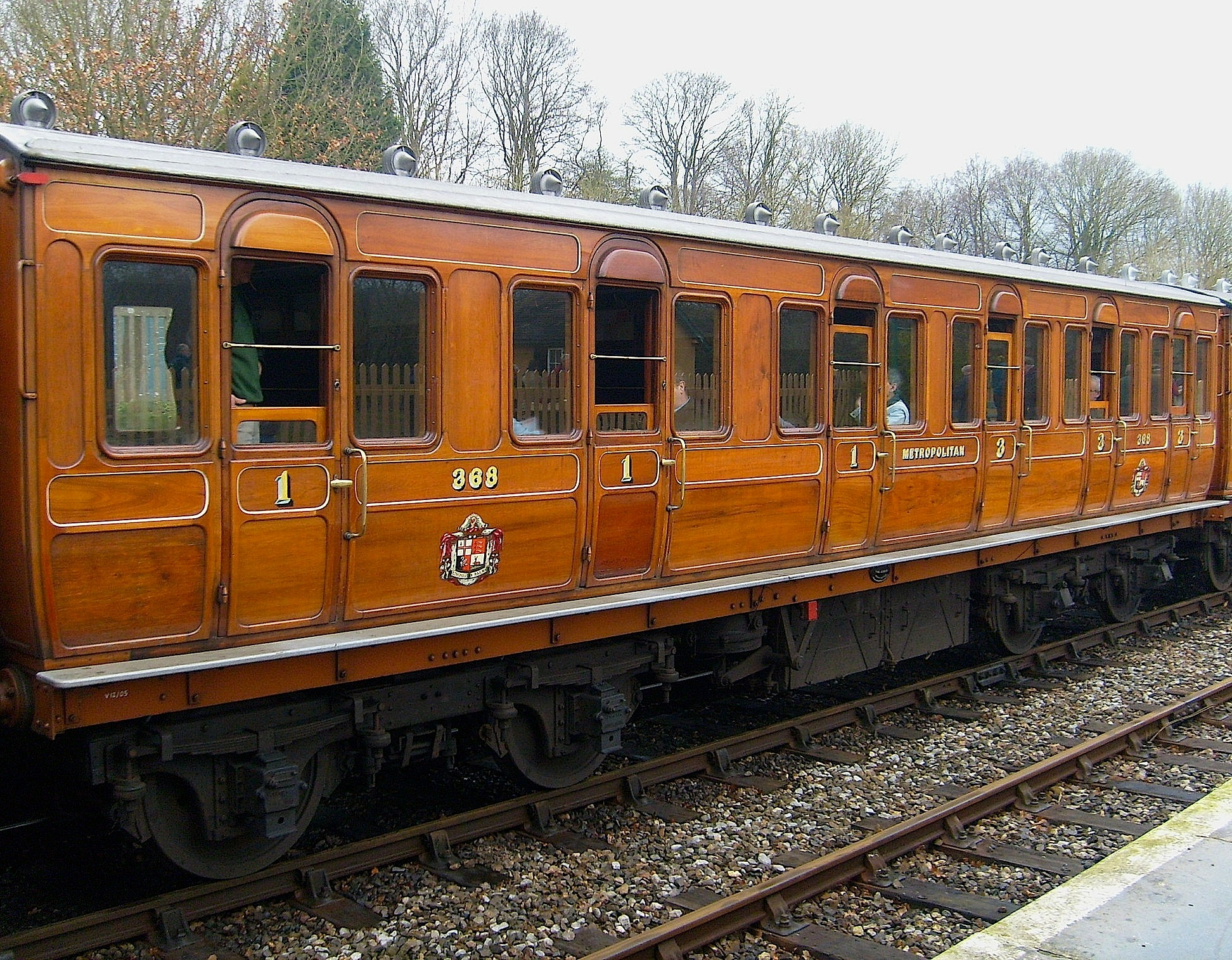 Metropolitan Railway Composite Chesham carriage No. 368